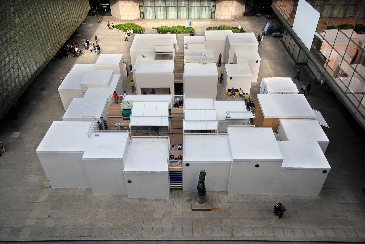 PQ 2011 - Intersection